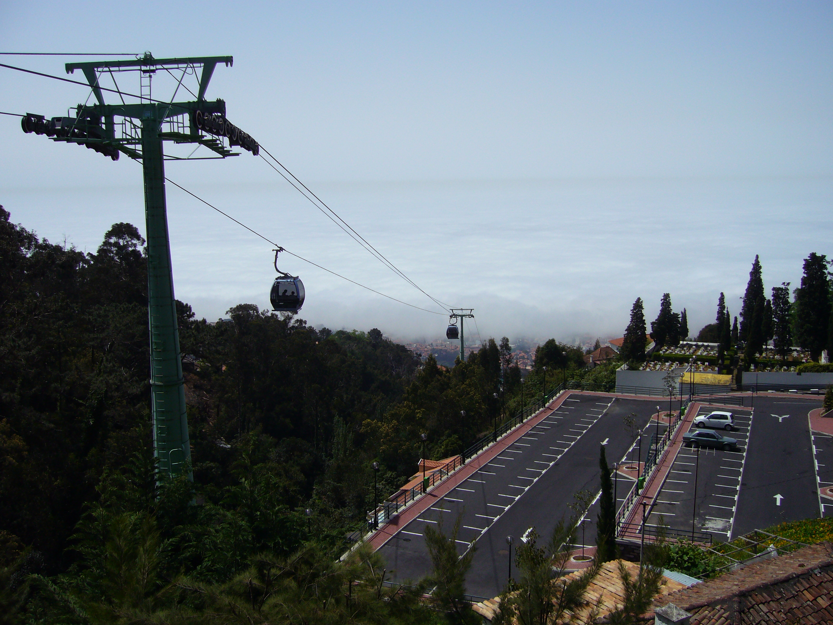 Funchal Passenger Ropeway, Portugal.